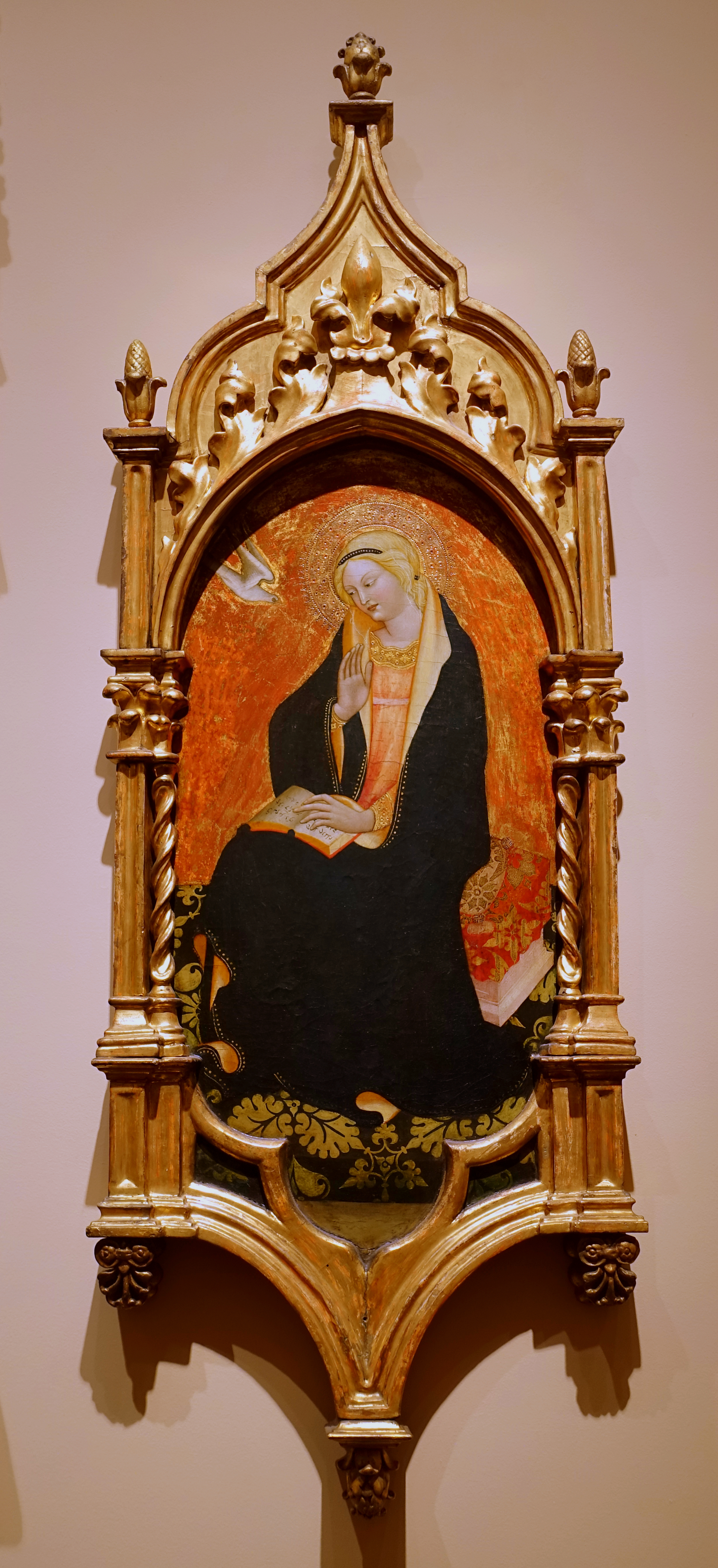 Exhibit in the John and Mable Ringling Museum of Art - Sarasota, Florida, USA.